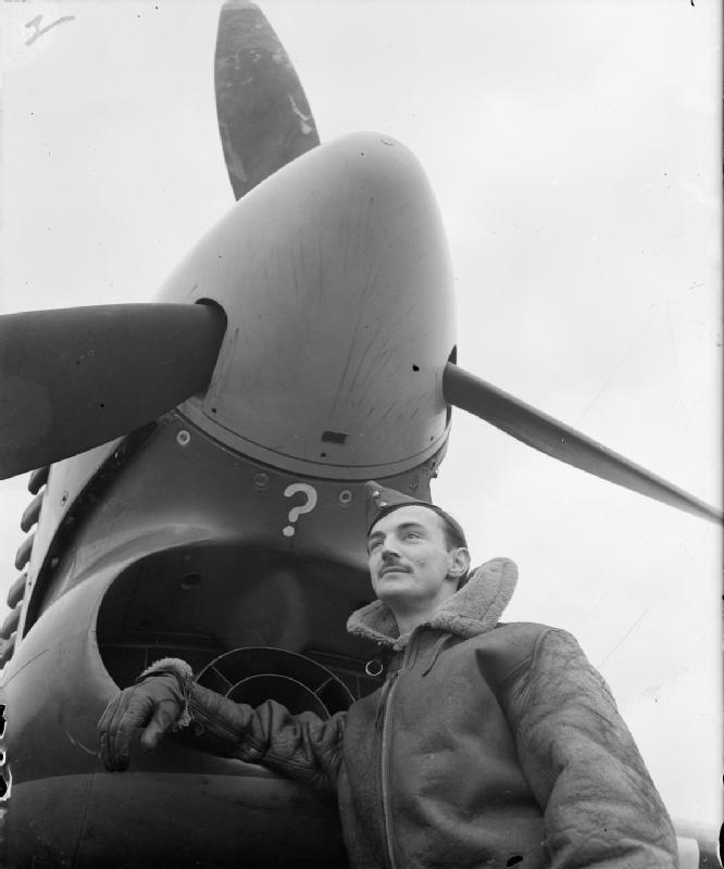 Royal Air Force Fighter Command, 1939-1945. Wing Commander M N Crossley standing in front of a Hawker Typhoon at Gravesend, Kent. In 1940 Crossley shot down 22 enemy aircraft over France and during the Battle of Britain while flying with No. 32 Squadron RAF, latterly as its Commanding Officer. He led a wing of Supermarine Spitfires in 1941, and was then posted to the united States as a test pilot for the British Air Commission. He returned to England in 1943 to lead the proposed Detling Wing, but his operational flying career was cut short when he contracted tuberculosis.